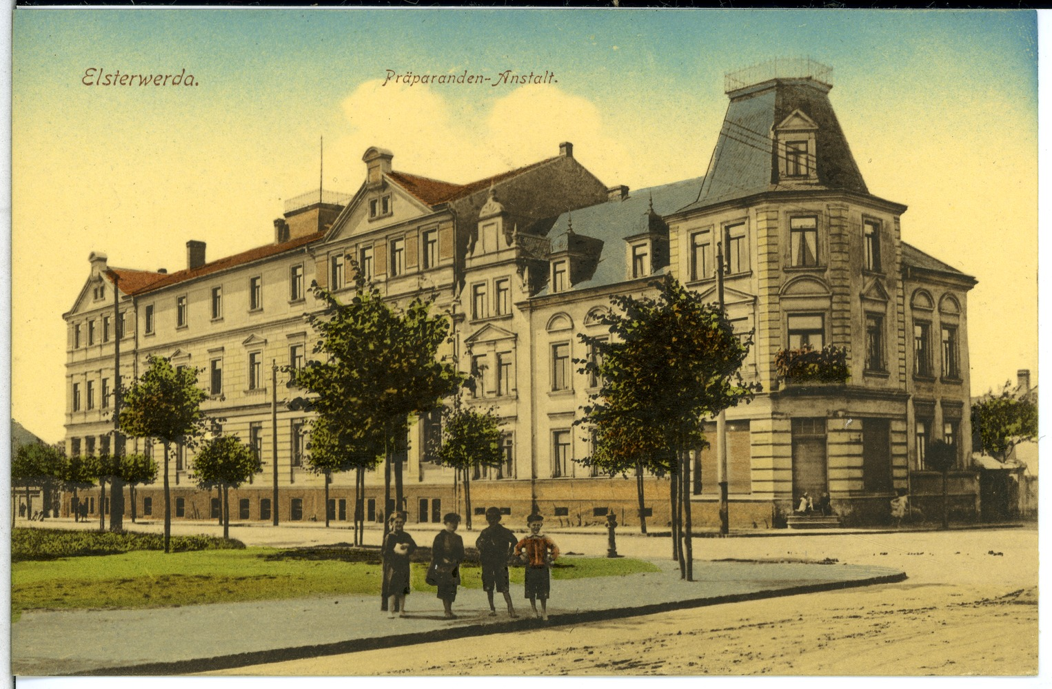 This postcard is from publisher Brück & Sohn in Meißen ( This postcard has a unique number 11424 and is available in a higher resolution at the publisher. This images was uploaded in a cooperation project between Wikipedians and the publisher.